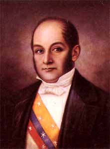 Oil Painting of José de Obaldía, President of The New Granada, and father of José Domingo de Obaldía president of Panama.